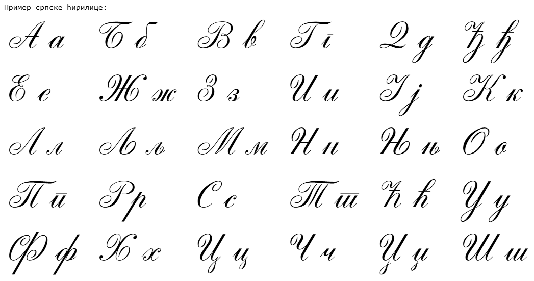 One good example of Serbian Cyrillic alphabet. Proper Serbian Cyrillic.Srpski (latinica): Jedan dobar primer srpske ćirilice. Ispravna srpska ćirilica.